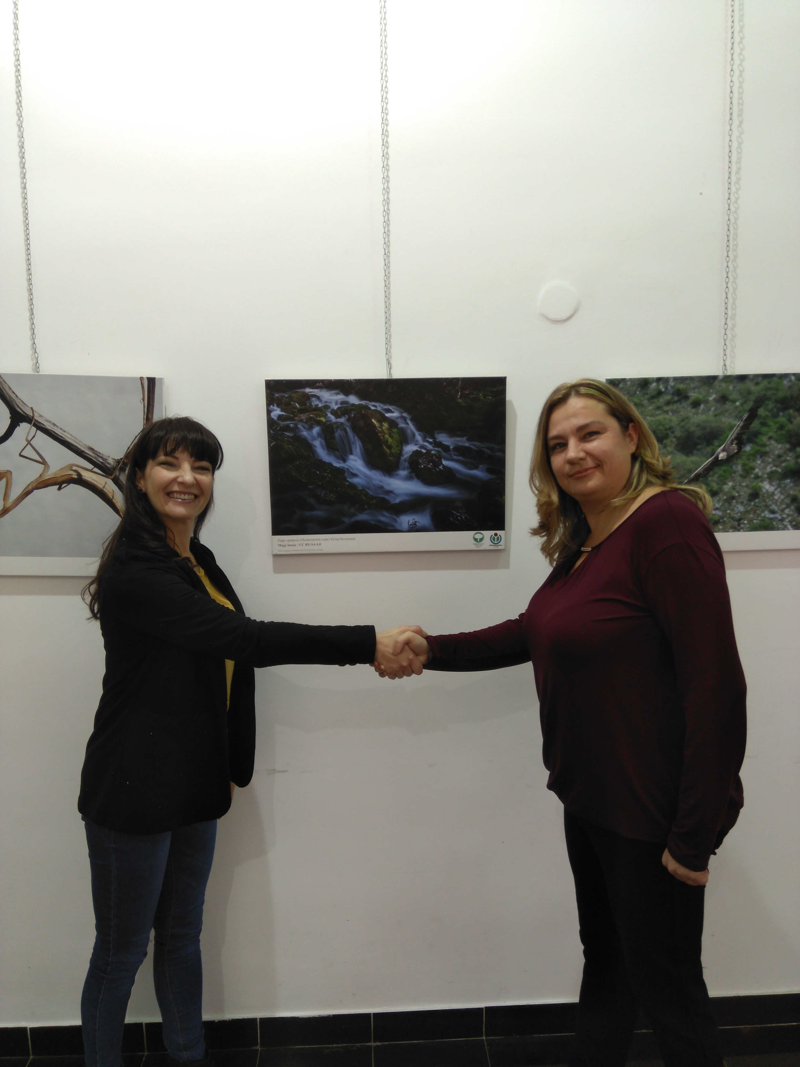 Wiki Loves Earth Exhibition in Paraćin